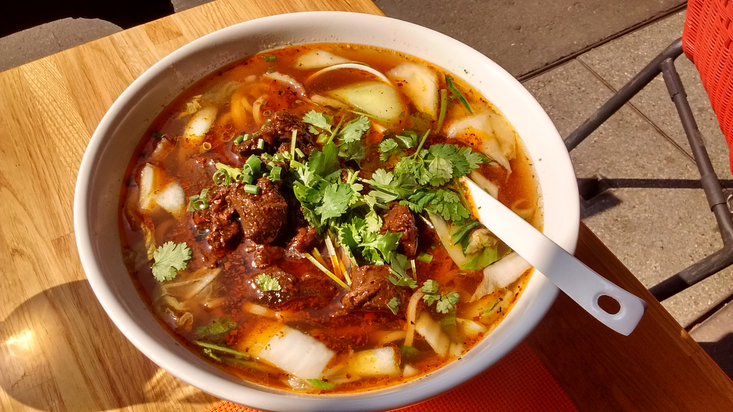 Spicy Noodle Soup with Beef @ My Noodles @ Paris